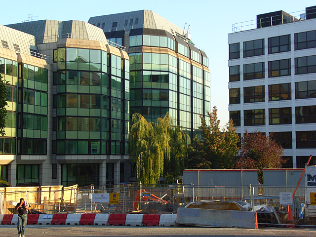 Abbey Street, Reading Abbey Street passes between the two office blocks down to its junction with King's Road. To the right is King's House which is occupied by the Rural Payments Agency. The greenish building is Abbey Gardens. This has recently been vacated by Prudential and is now home to Foster Wheeler. The trees mark the position of Holy Brook, which passes beneath Abbey Gardens before rejoining the River Kennet.